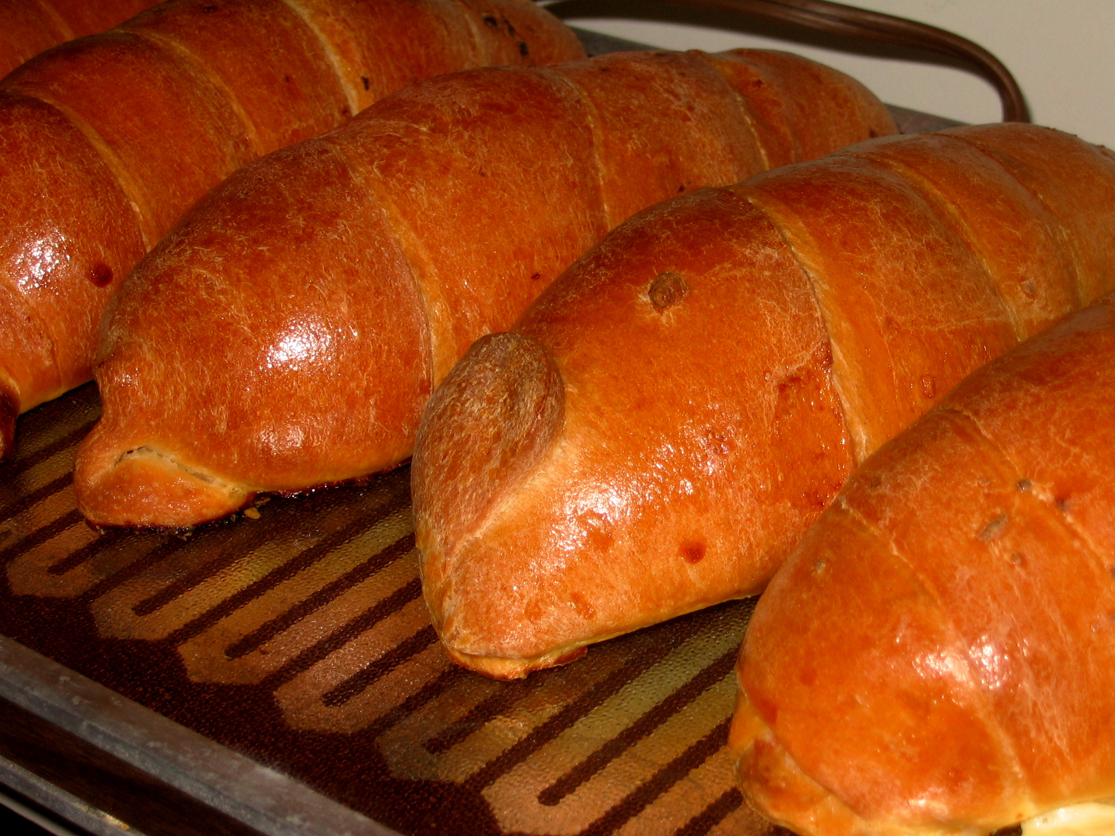 Cachitos are a Venezuelan food similar to the croissant, and are often filled with ham and cheese.